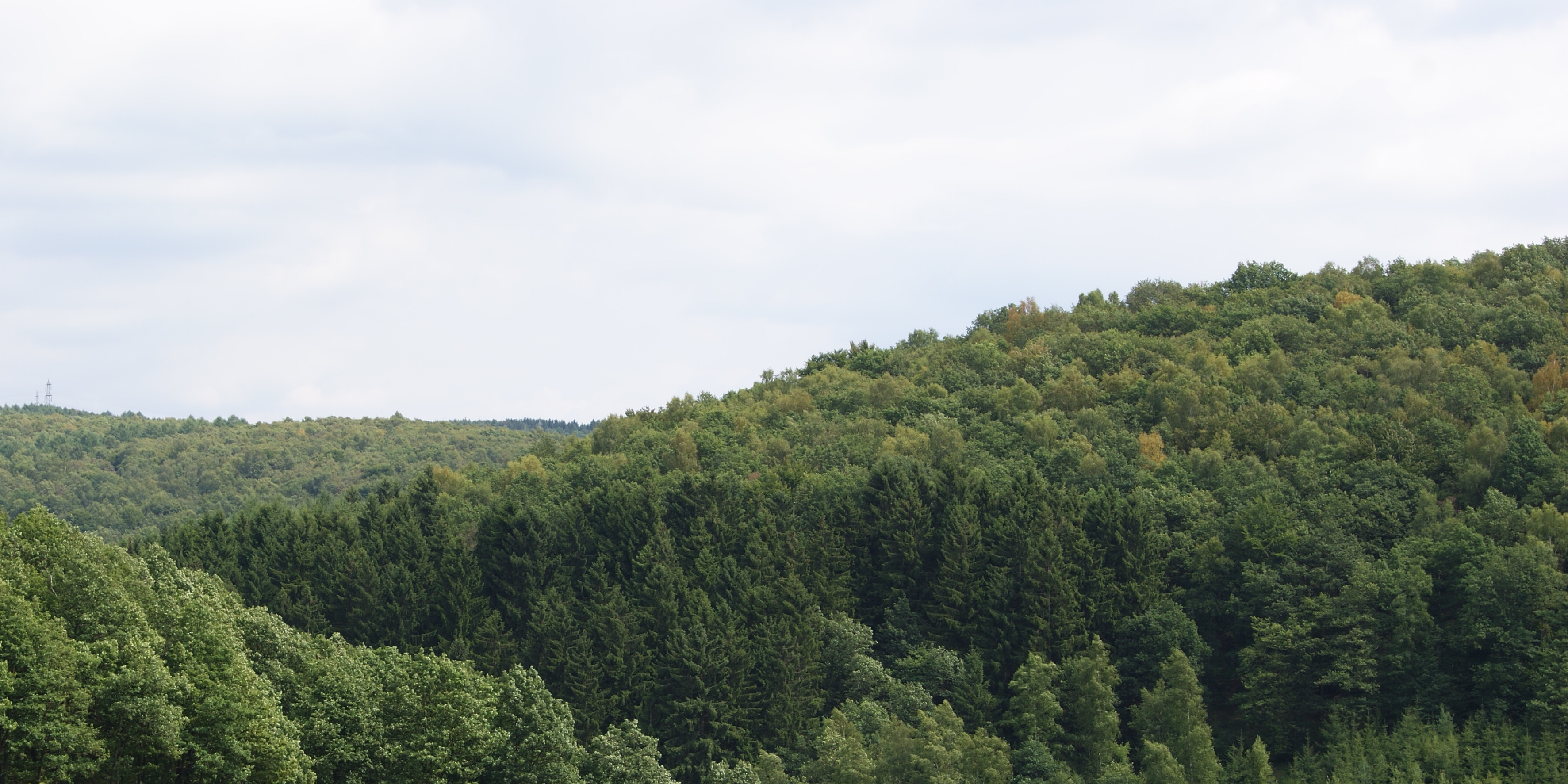 Giebelwald at Freudenberg-Niederndorf, Germany.